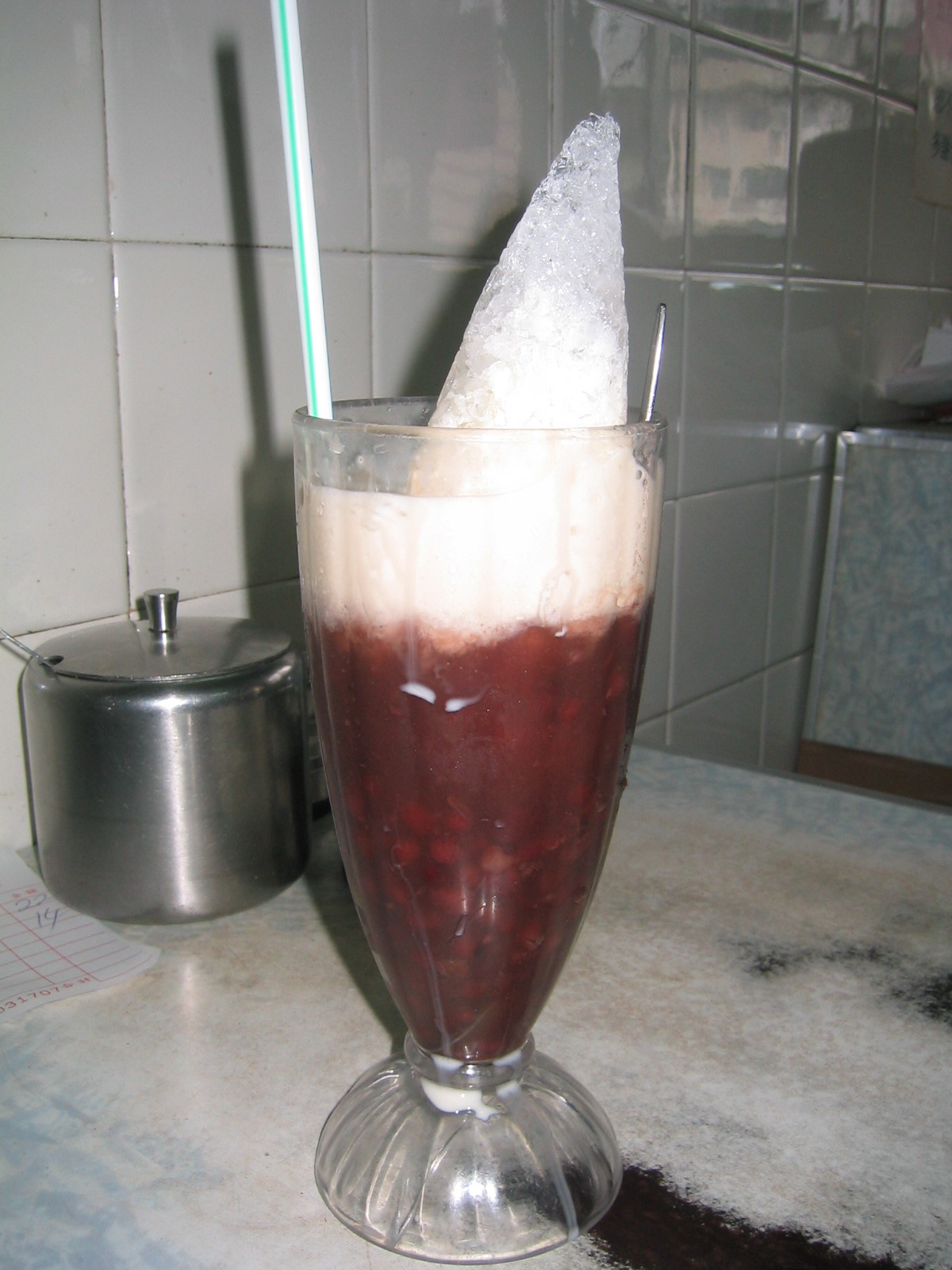 A glass of "Red Bean Ice" (紅豆冰)